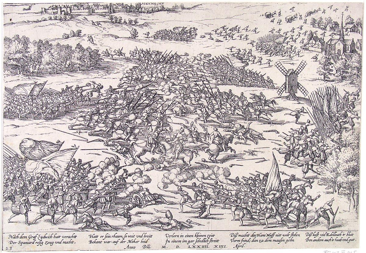 The battle of Mookerheyde in 1574. Etching. Rotterdam, Museum Boijmans Van Beuningen Prentenkabinet (inv.no. BdH 19198 (PK)). 1951 Bierens de Haan bequest.